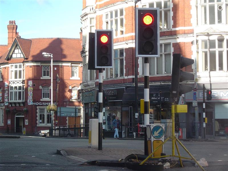 Princes Square, Wolverhampton. Site of first automatic traffic lights in England. The modern lights are the only ones in the UK with the traditional striped poles.